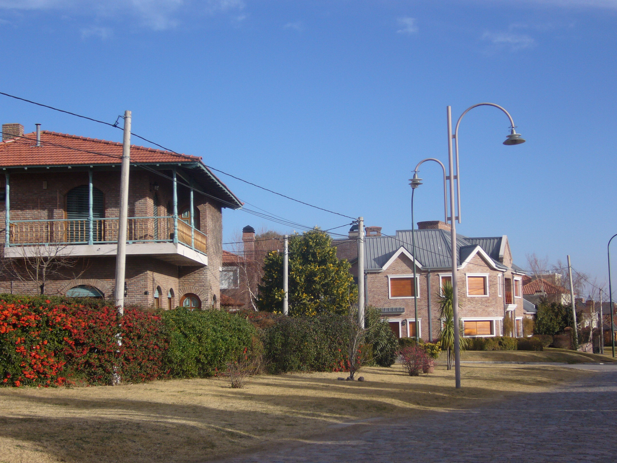 Barrio Palihue. Bahía Blanca